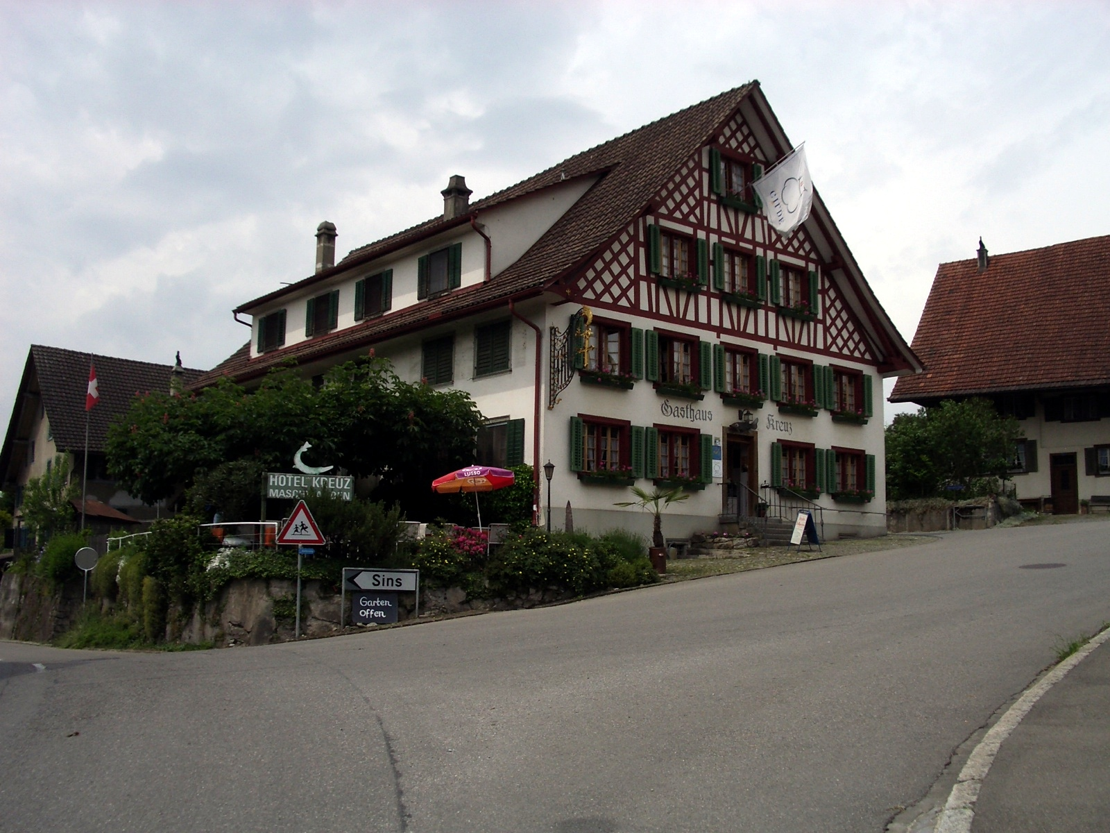 Maschwanden ZH, Switzerland